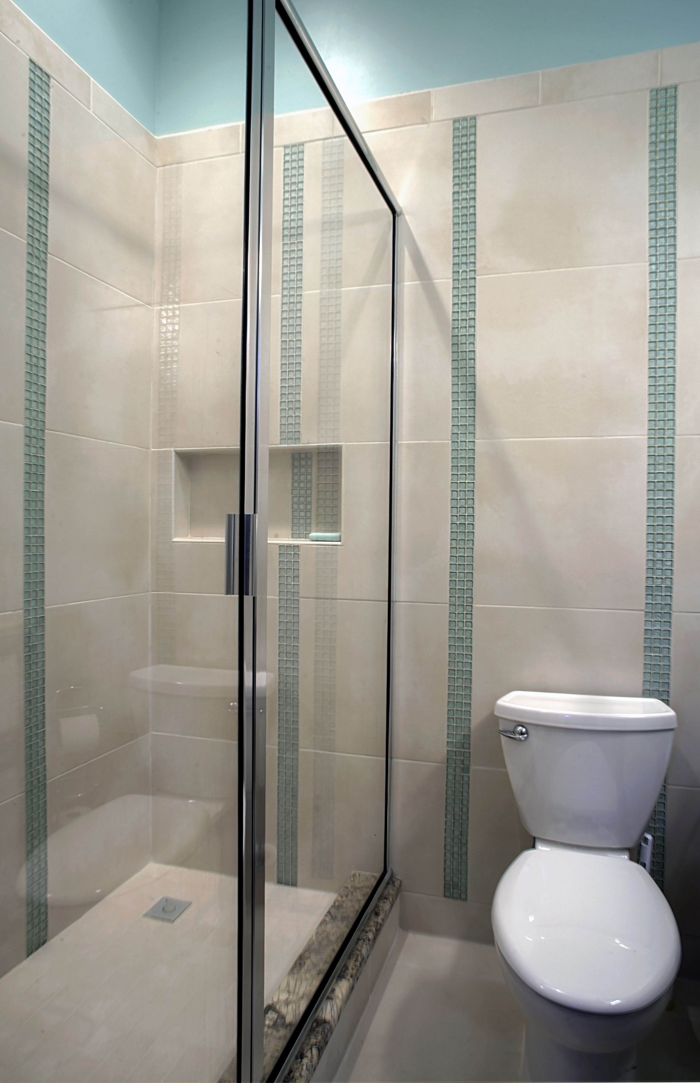 A Residential bathroom in the United States.